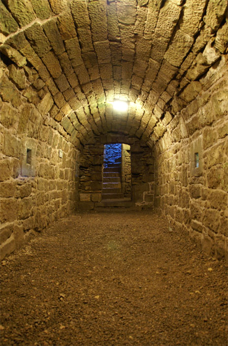 Craignethan Castle, Scotland - caponier interior